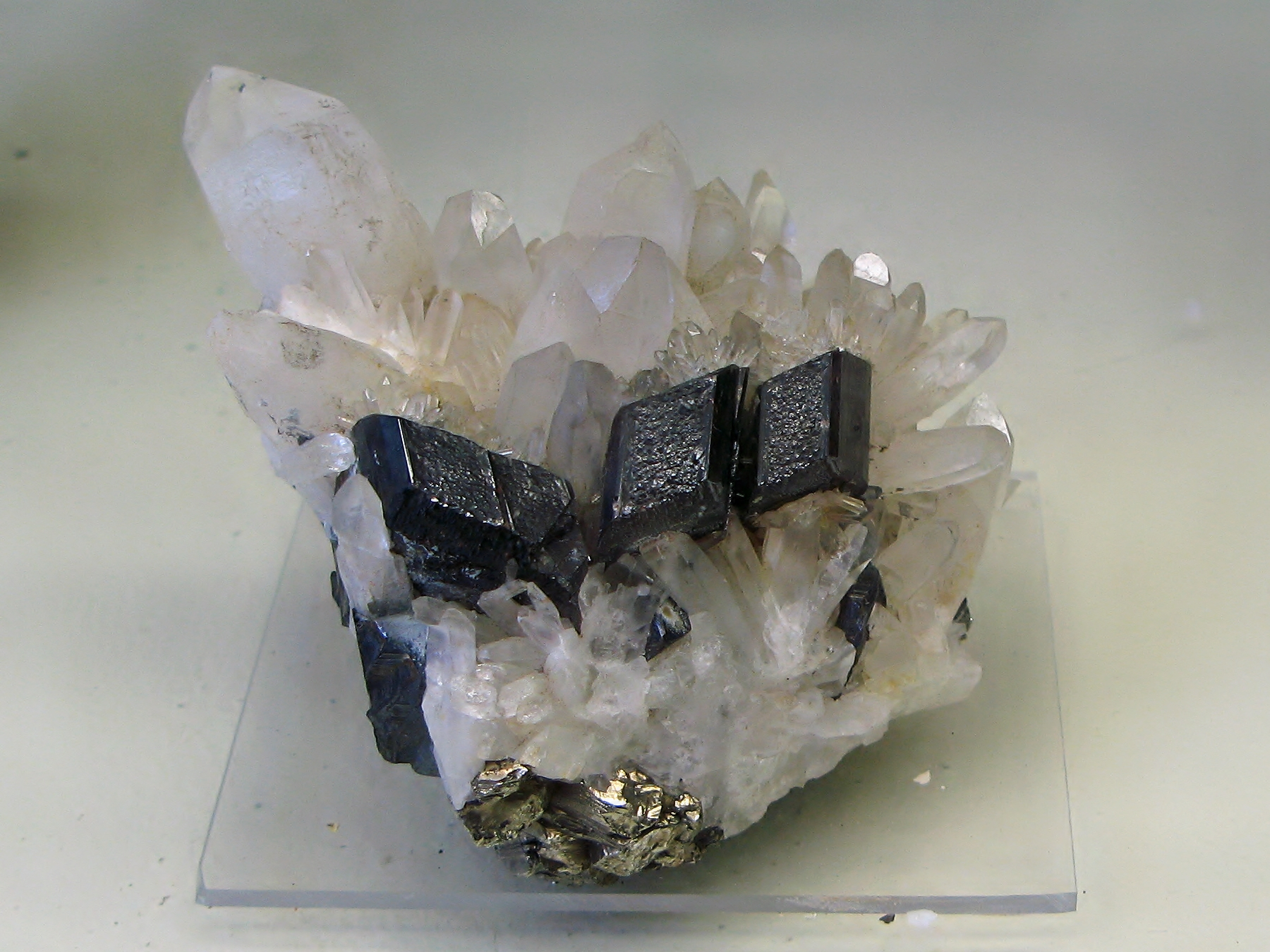 Wolframite with Quartz (rock crystal) and Pyrite - Fundort: Mundo Nuevo Mine, Peru - Exposed in the Mineralogical Museum, Bonn, Germany